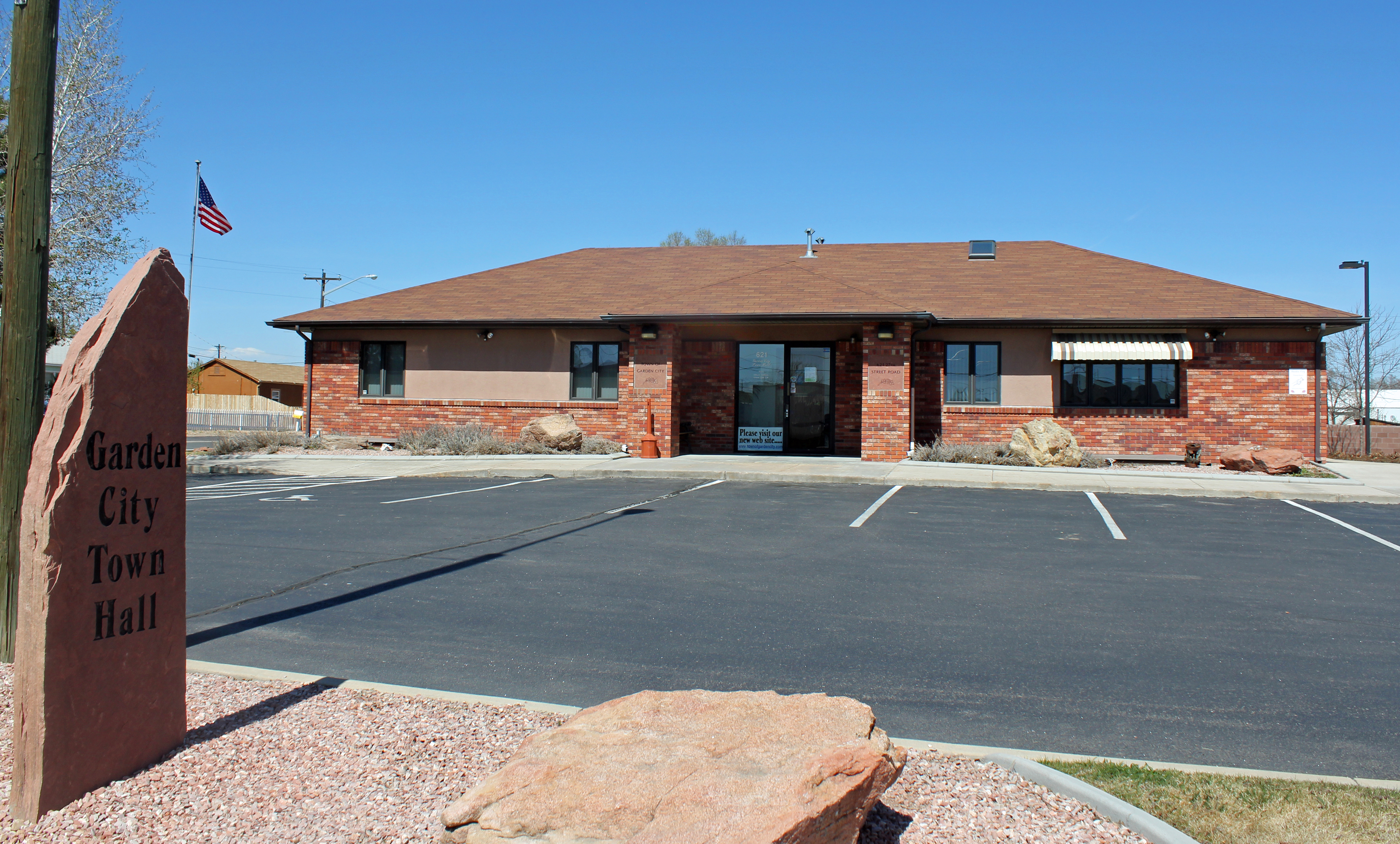 The Garden City, Colorado Town Hall, located at 621 27th Street Road in Garden City, Colorado.